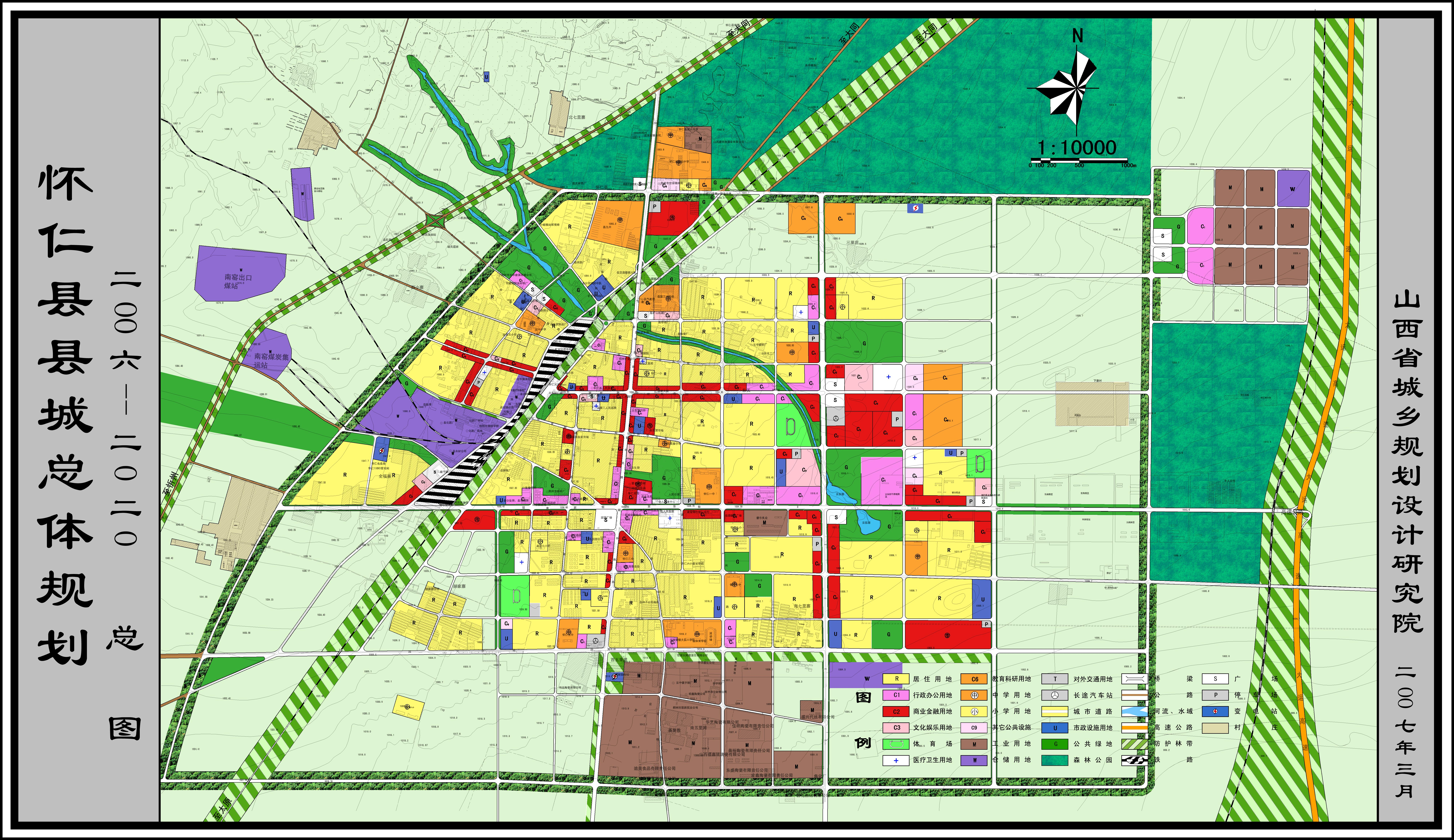 Urban Plan of Huairen County, Shanxi, China（2006-2020）